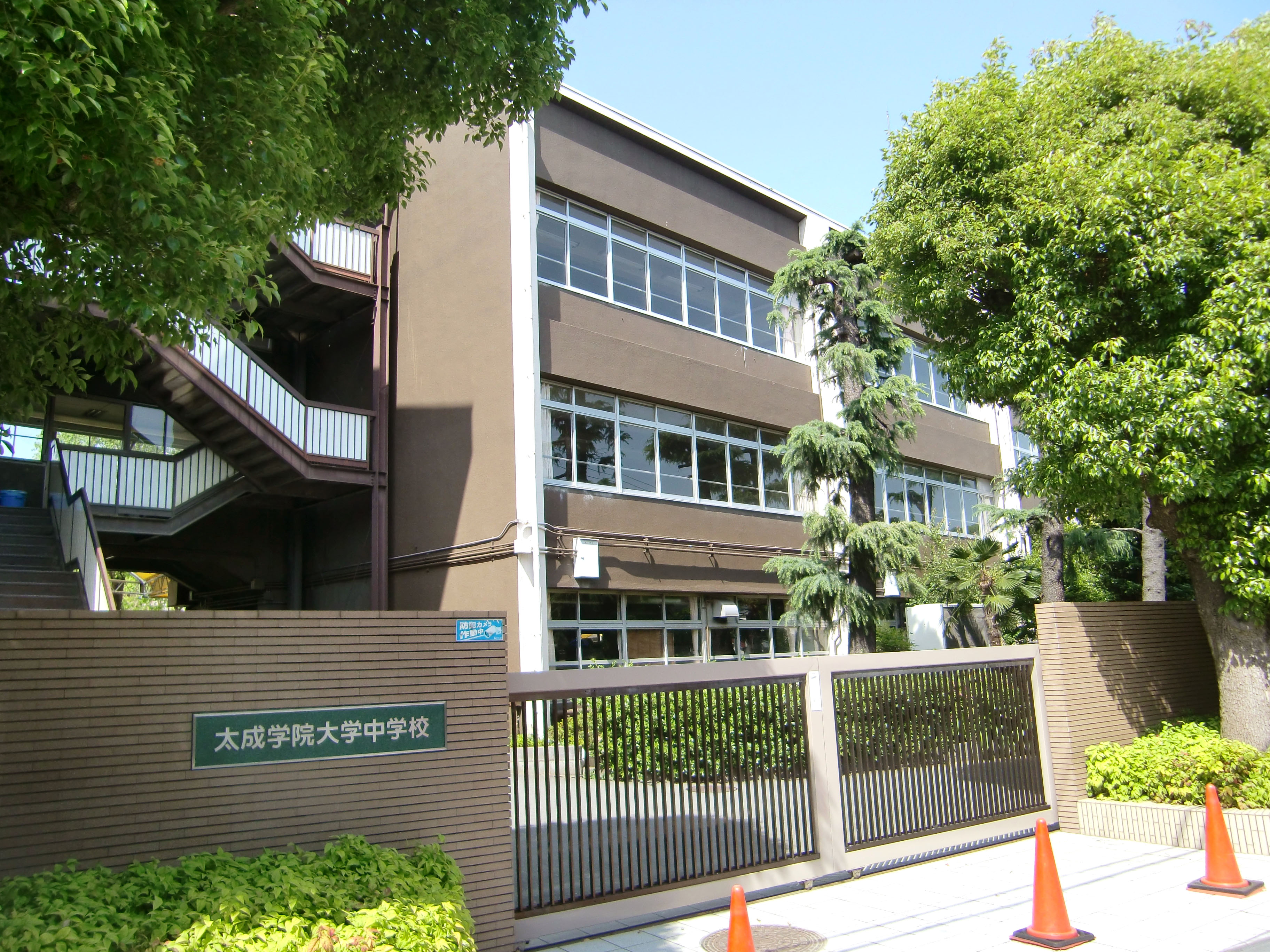 Taisei Gakuin Junior High School, 7-2-23 Morofuku Daito-City Osaka JAPAN.